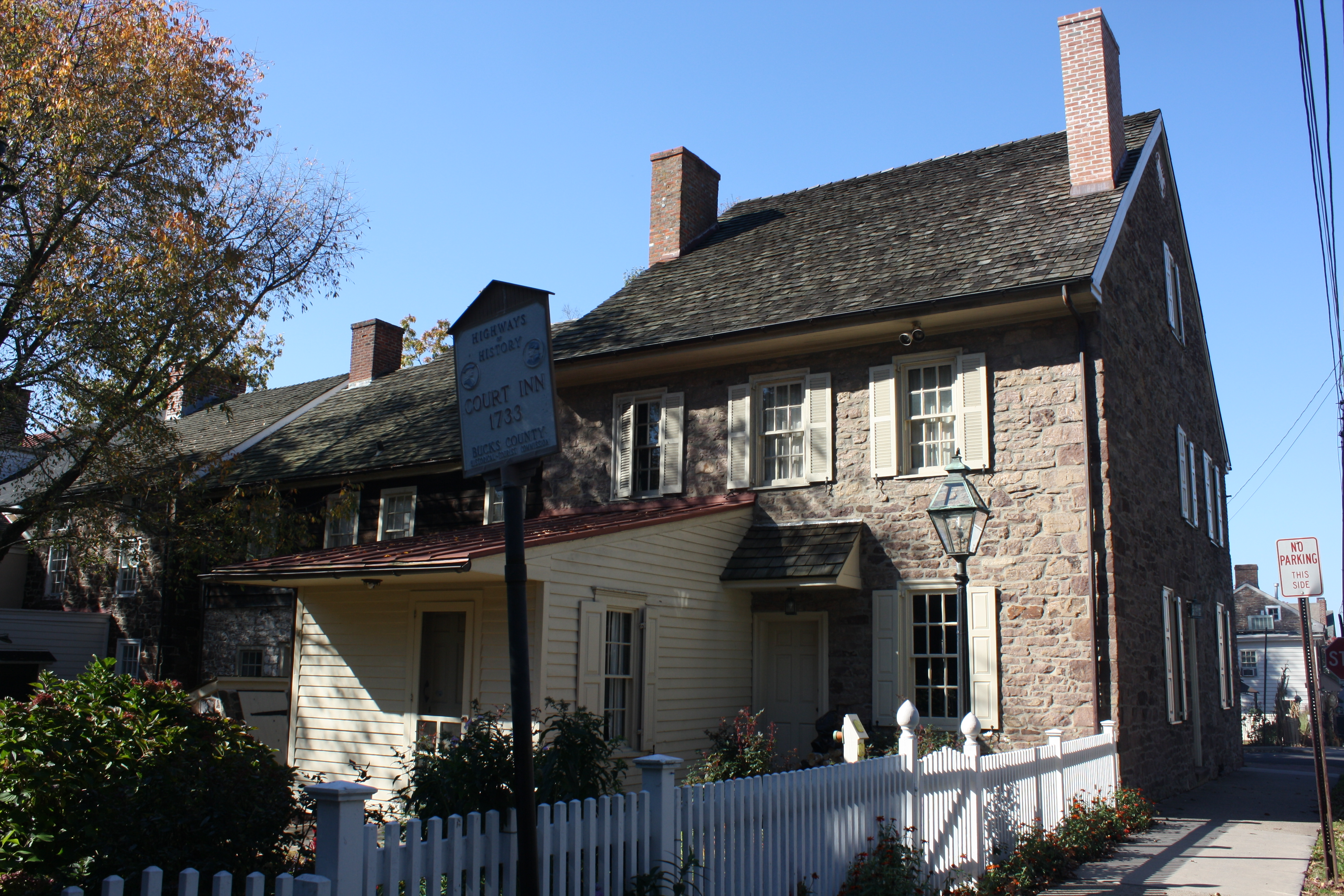 Half-Moon Inn, also known as the Court Inn and Thorton's Tavern, is a historic inn and tavern located at Newtown, Bucks County, Pennsylvania. View from E. Centre Ave. Object location40° 13′ 40″ N, 74° 56′ 11″ W